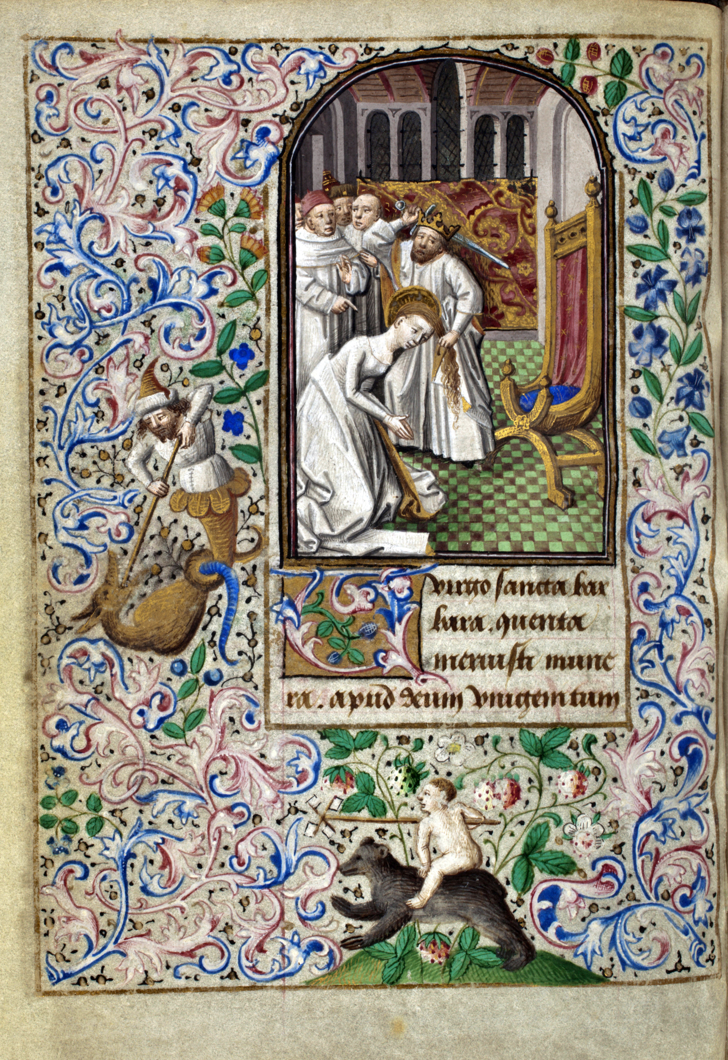 Folio 019v from the Book of Hours of Simon de Varie - KB 74 G37a Miniature on the folio 019v The martyrdom of St. Barbara - she is beheaded by her father Dioscuros